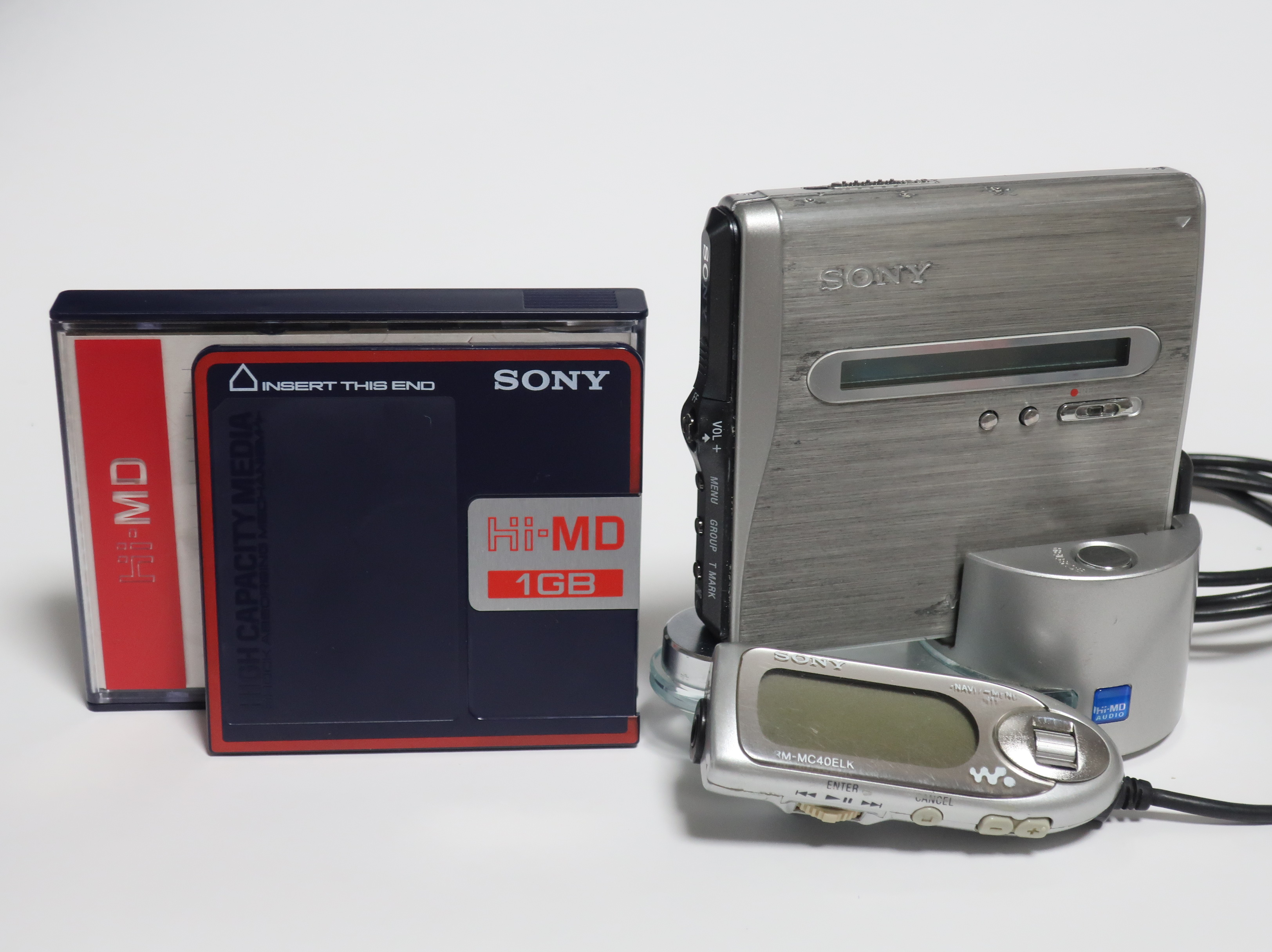 Sony MZ-NH1 Hi-MD Walkman with a wired conrtoller, a battery charger and an original Sony Hi-MD disc (HMD1G), released in 2004.